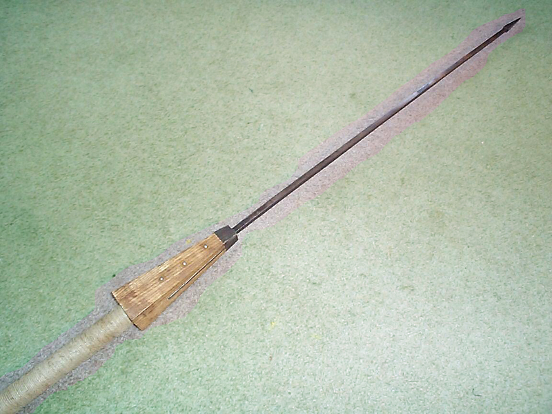 Etrusia - Roman History Contents 1 Credits 2 Licensed 3 Licensing 4 Original upload log Credits Etrusia - Roman History Licensed Certainly, you are welcome to use these images. The Creative Commons licence lets you use any of our images on any of our sites. We would be pleased to see any of them on Wikipedia. We would appreciate a credit or even a link back to the site where possible, of course. Heather ( mails get forwarded to my own email account, which is why the reply comes from a different address.)